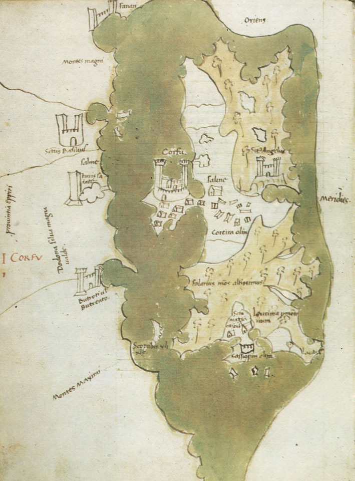 Cristoforo Buondelmonti, Liber Insularum Archipelagi (1420), Corfu Island, Aegean Sea